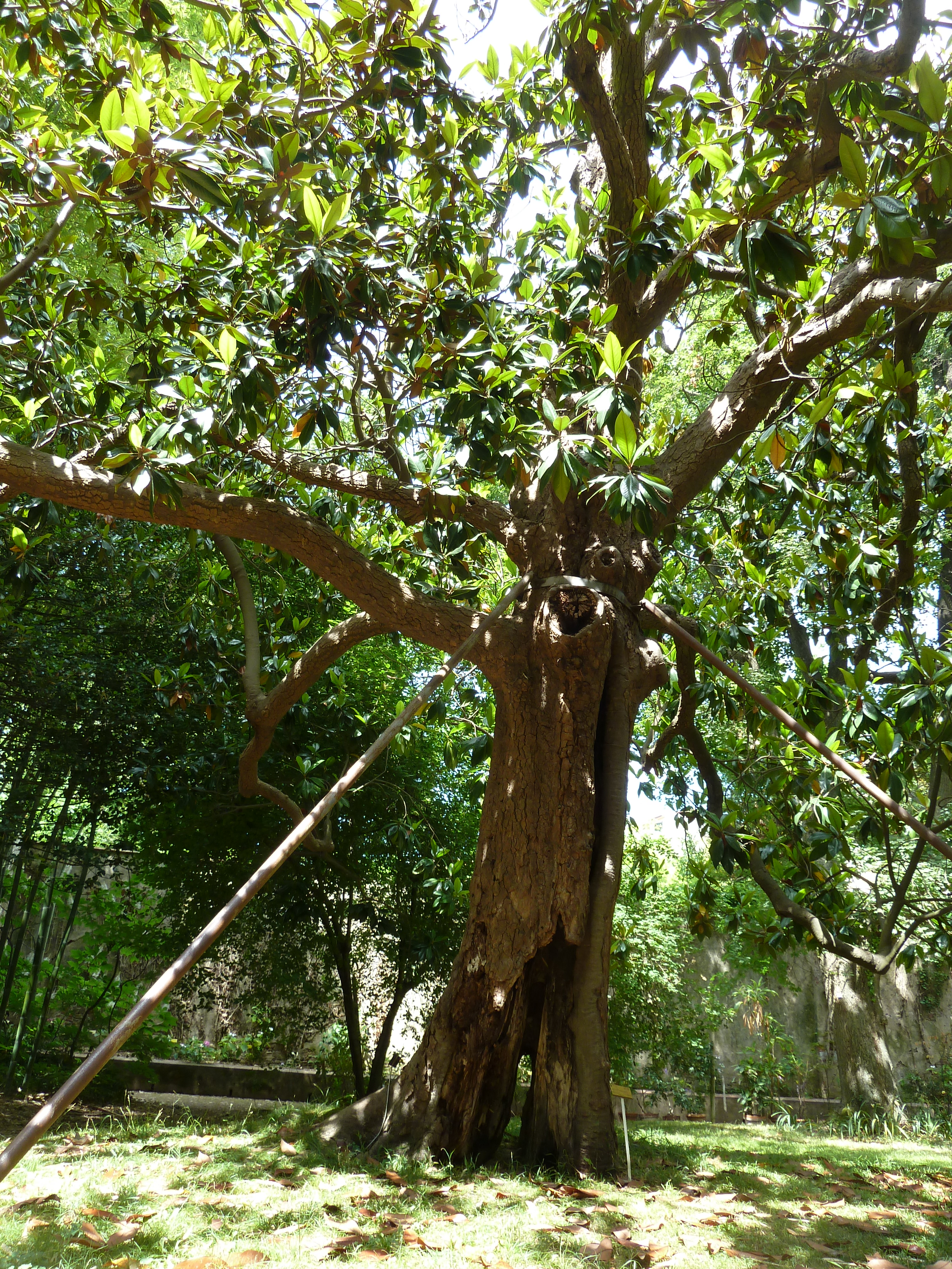 Magnolia grandiflora at Orto botanico di Pisa. This tree was planted in 1787. see